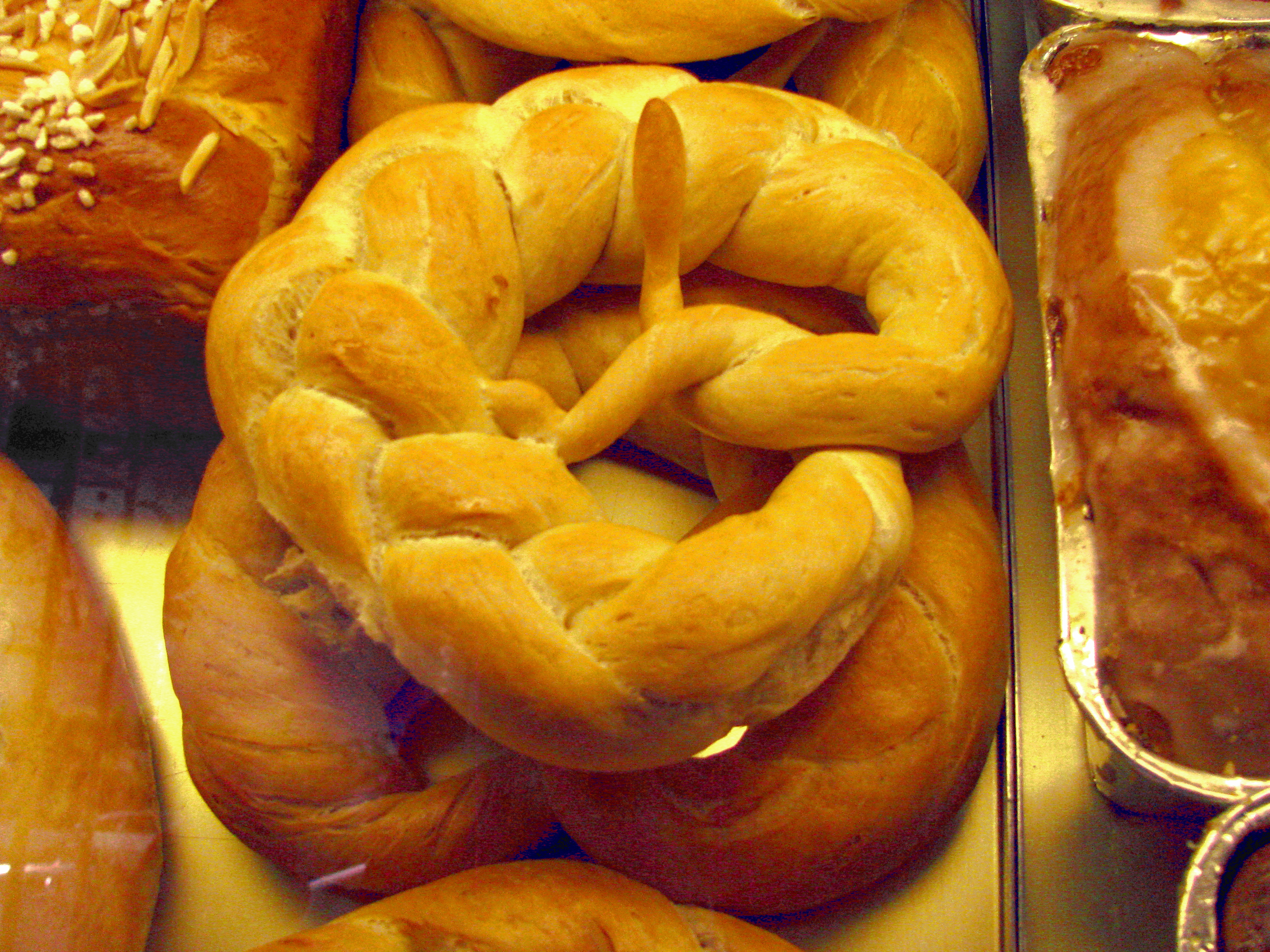 New Year's Pretzels (small: width about 15 cm) in a Stuttgart (Germany) bakery